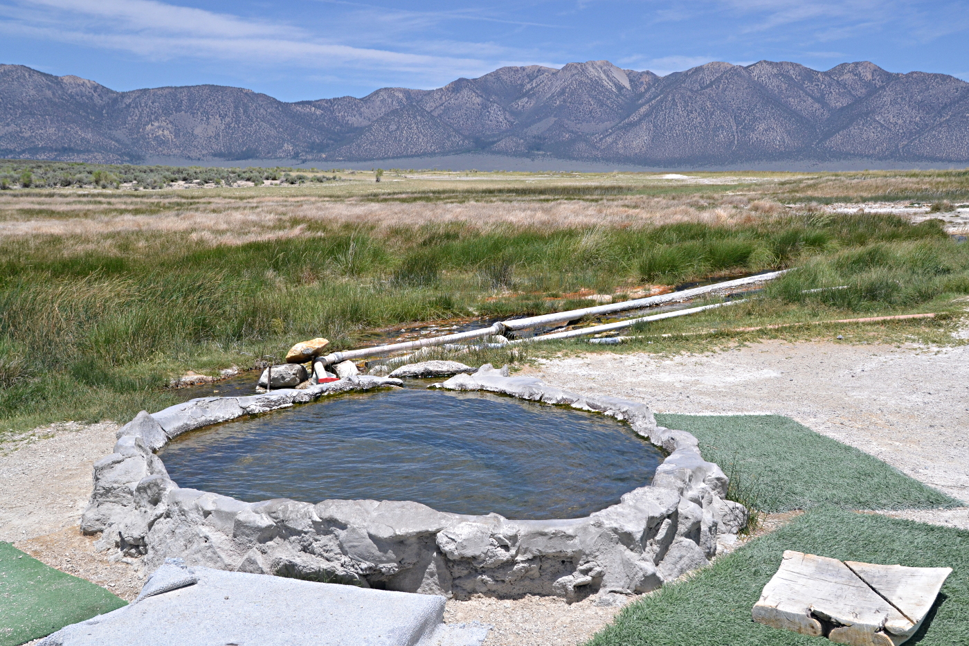 Hilltop Hot Spring, Long Valley Caldera near Mammoth Lakes, California Glass Mountains are in the background